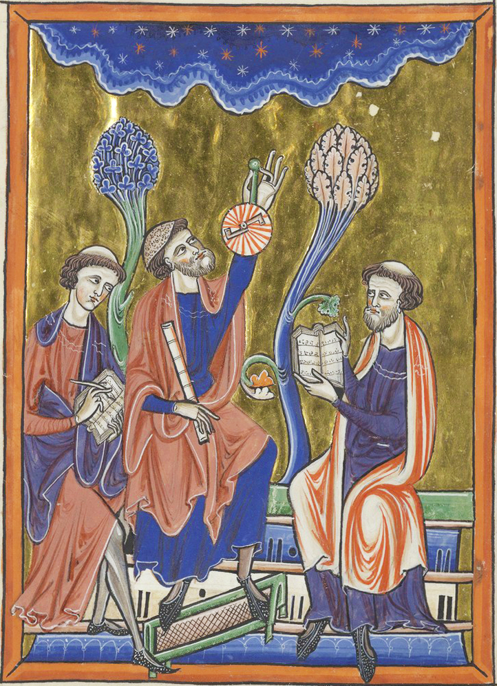 A scene of Ibn Ezra practicing Astrology with an Arabic manuscripts being held by the men that flank him to either side.